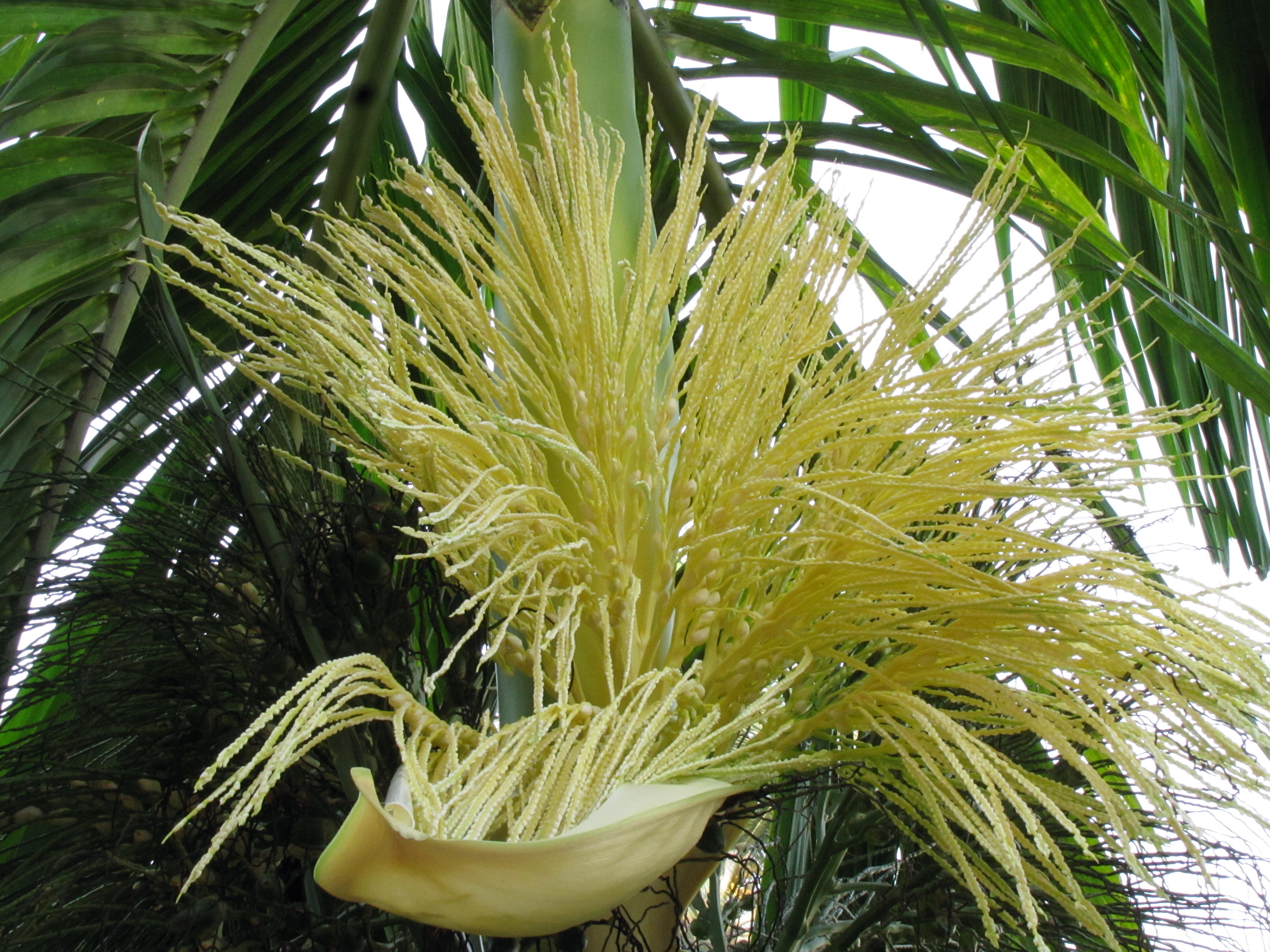 Arecanut tree flowers.